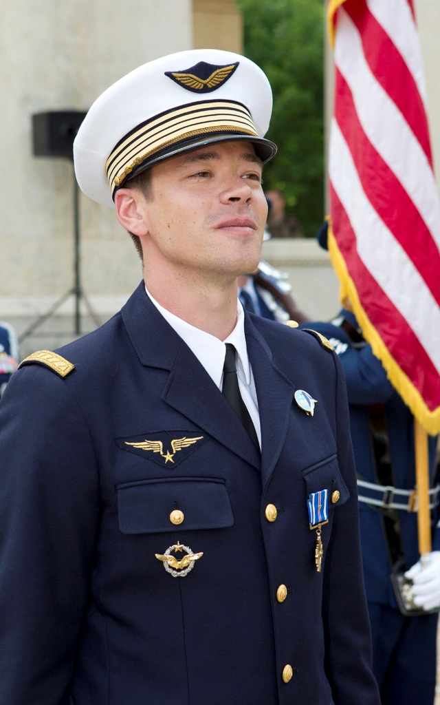 French air force Maj. Guillaume Vernet shows his pride after receiving the Distinguished Flying Cross with Valor from Air Force Chief of Staff Gen. Norton Schwartz July 13, 2011, at the Lafayette Escadrille Memorial in Marnes-la-Coquette, France. Vernet was awarded the decoration for repeatedly flying into hostile territory in December 2009 while deployed to Afghanistan as an exchange officer with the 41st Rescue Squadron from Moody Air Force Base, Ga. During that mission, Vernet rescued an urgent casualty whose injury put the lives of 160 British soldiers in jeopardy.